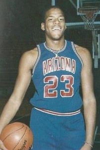 Basketball player Sean Rooks with the Arizona Wildcats.